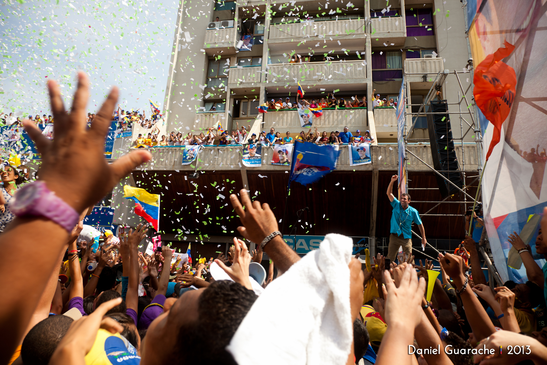 Venezuelan politician and presidential candidate Henrique Capriles in Cumaná, Venezuela, prior to the 2013 presidential elections.